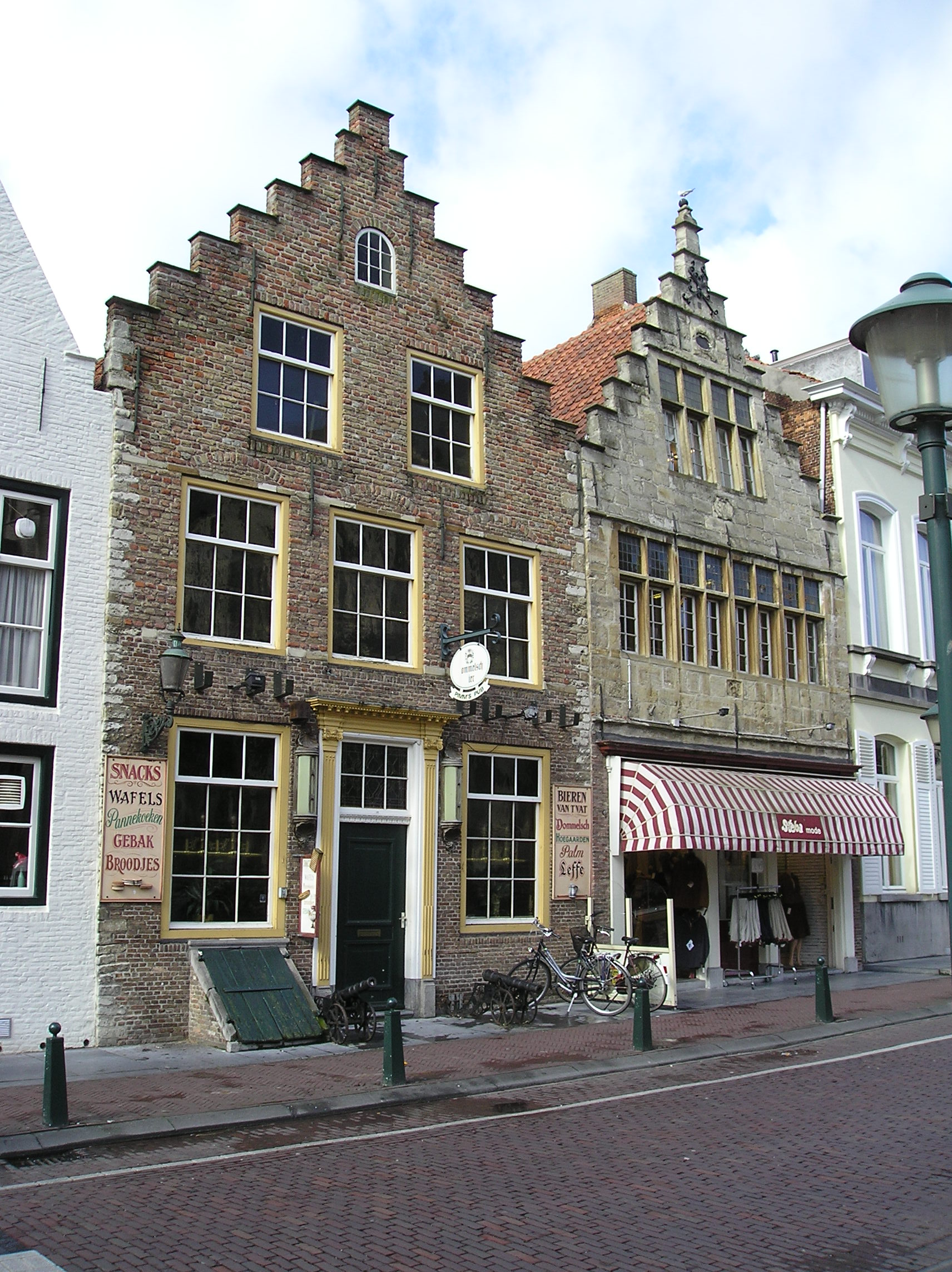 Old houses in Hulst, Netherlands. Houses are situated near main square